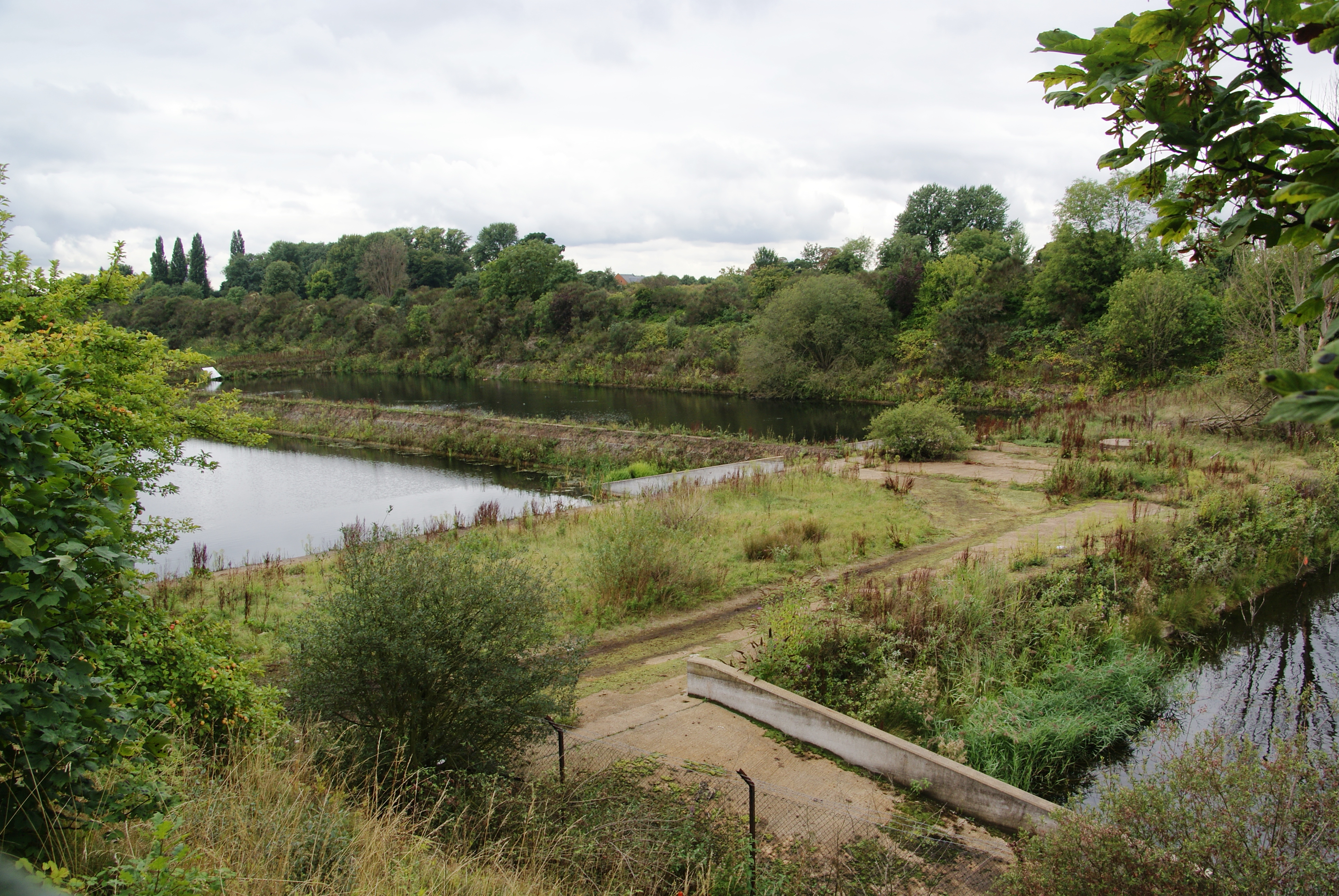 An image of the decommissioned Seething Wells Filter Beds, taken from an angle, on a cloudy day.